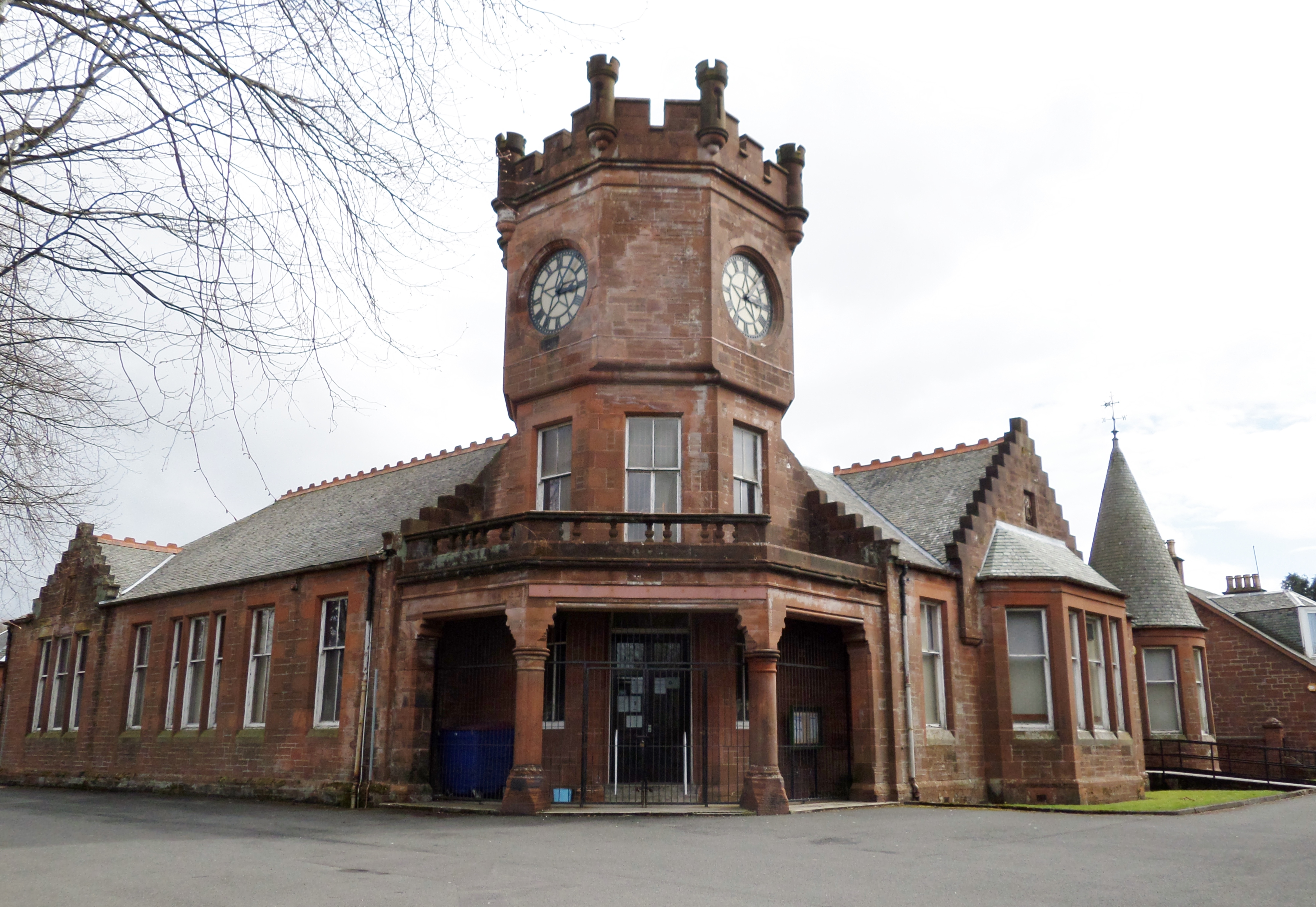 Catrine Town Hall, East Ayrshire, Scotland.